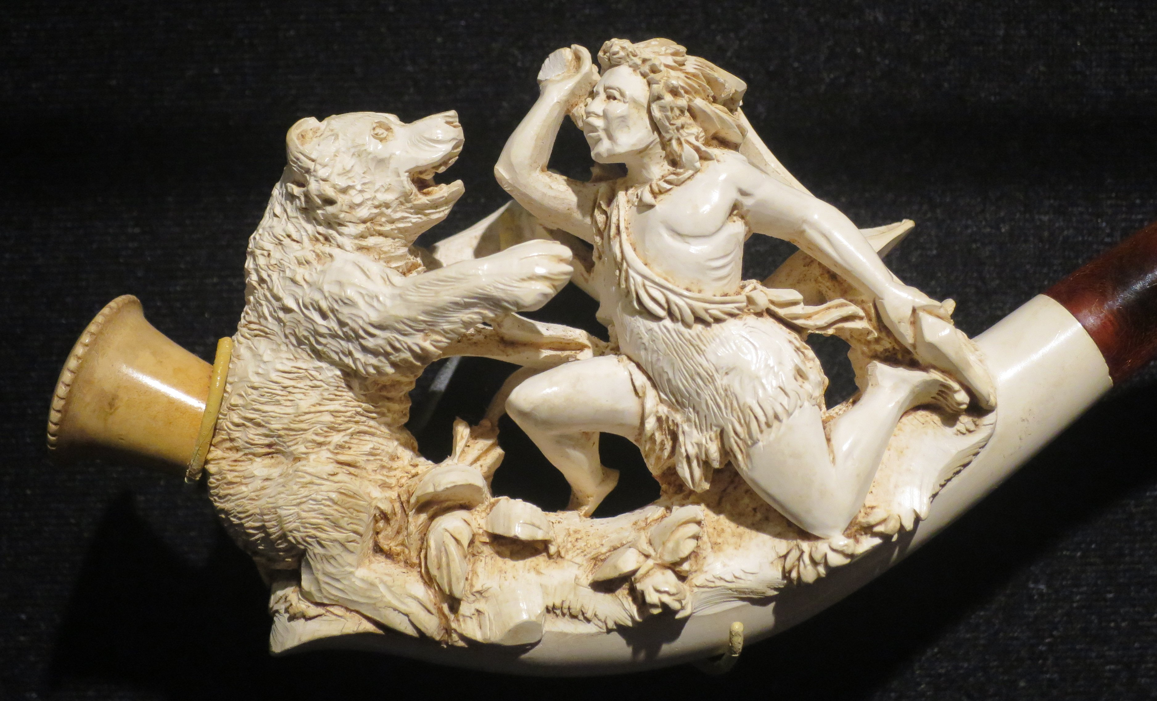 Meerschaum pipe owned by Kalākaua, Iolani Palace